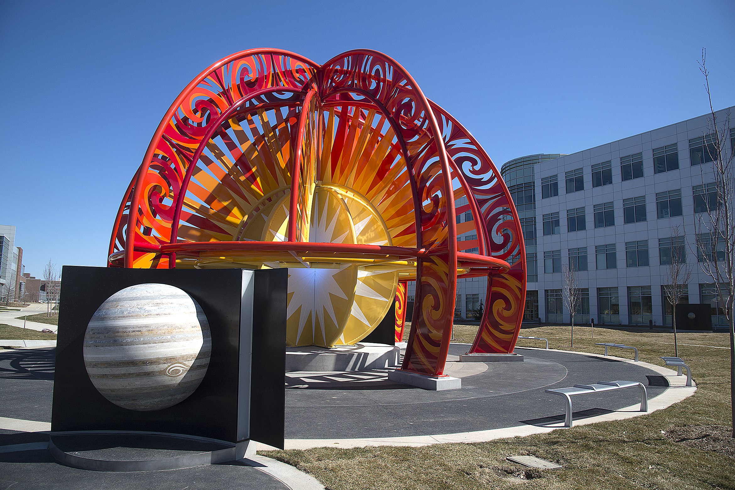 The cornerstone of the Visiting Our Solar System interactive exhibit in Discovery Park is the design of the sun, which is 45 feet in diameter. Surrounding the VOSS sun (pictured here) are the planets Mercury, Venus, Earth, Mars, Jupiter, Saturn, Uranus and Neptune set into a series of curved, 6-foot-high walls. Jeff Laramore and Tom Fansler of Smock Fansler Corp. of Indianapolis were the designers of the $1.5 million project. (Purdue University photo/Mark Simons)